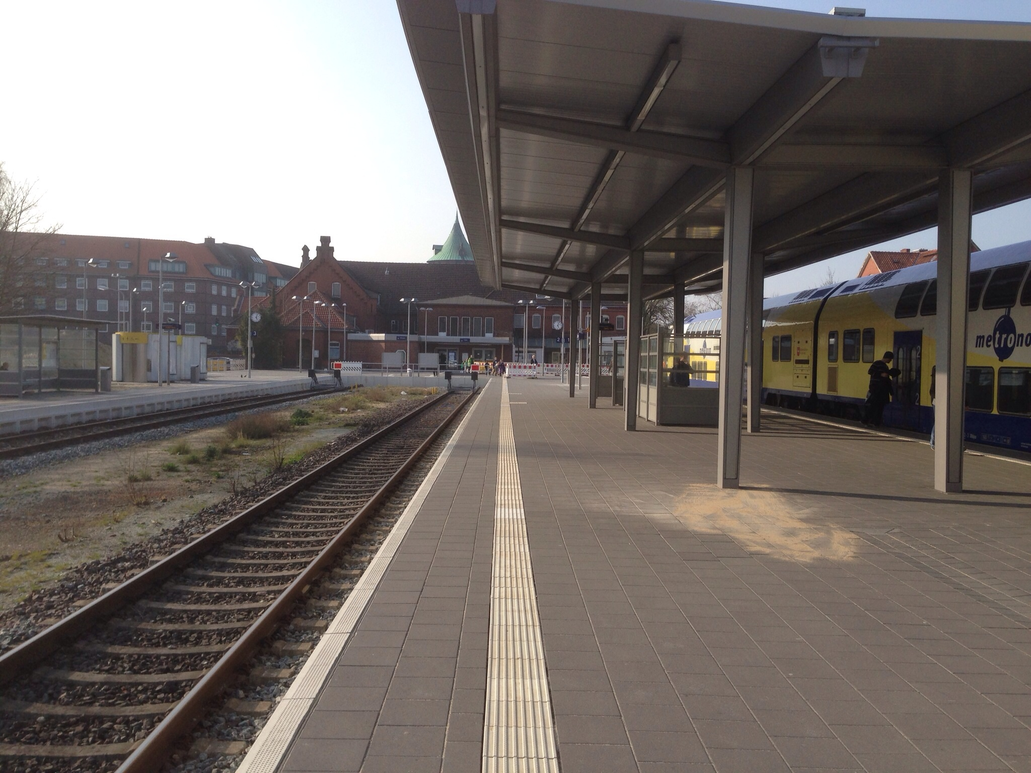 metronom train ends at Cuxhaven station. The station was finaly rebuilt.